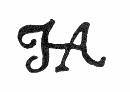 Scan aus Classified Signaturs of Artists